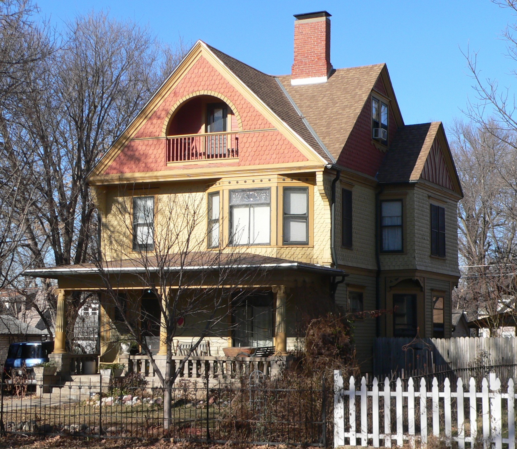 James D. Calhoun house, located at 1130 Plum Street in Lincoln, Nebraska; seen from the southeast.